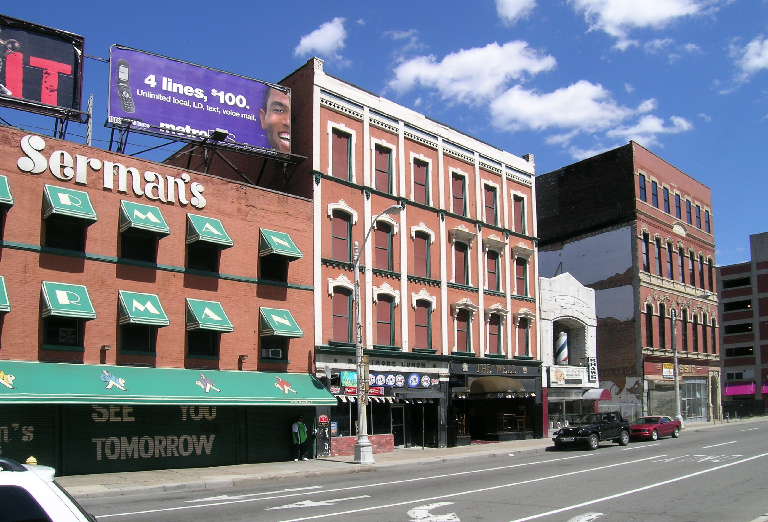 Randolph Street Streetscape in the 1200 Block